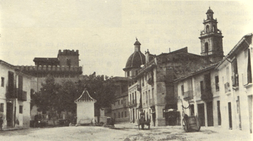 El Pouet Square of Burjassot